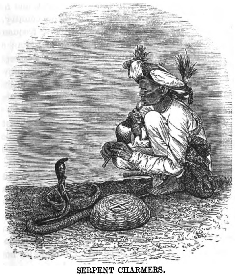 Serpent Charmers (p.161, November 1865, XXII)